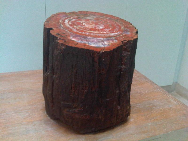 Petrified wood from Arizona, USA at the Natural History Museum in London, England.